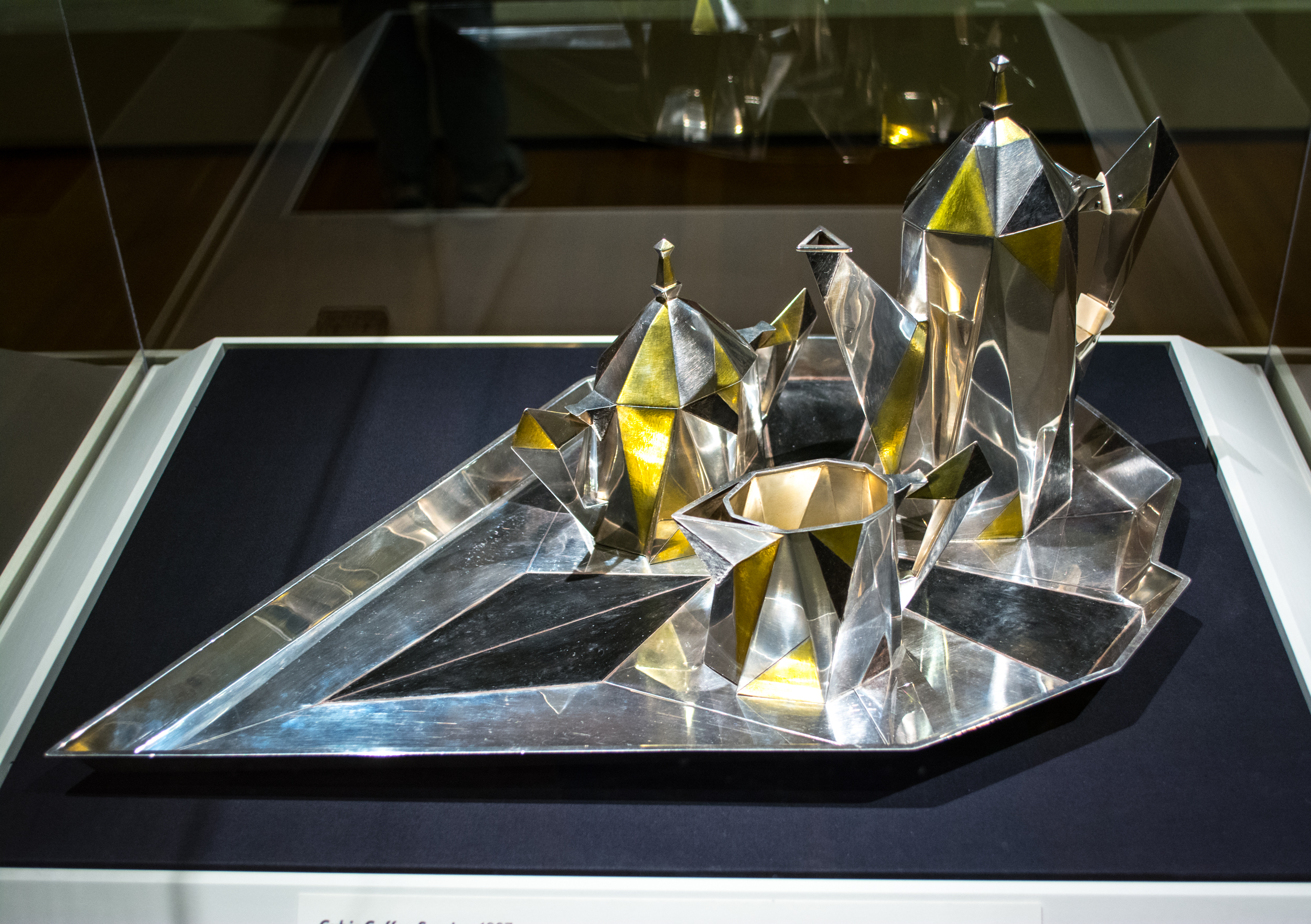 Cubic coffee service - Erik Magnussen